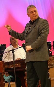 Mădălin Voicu at Fidlers' concert